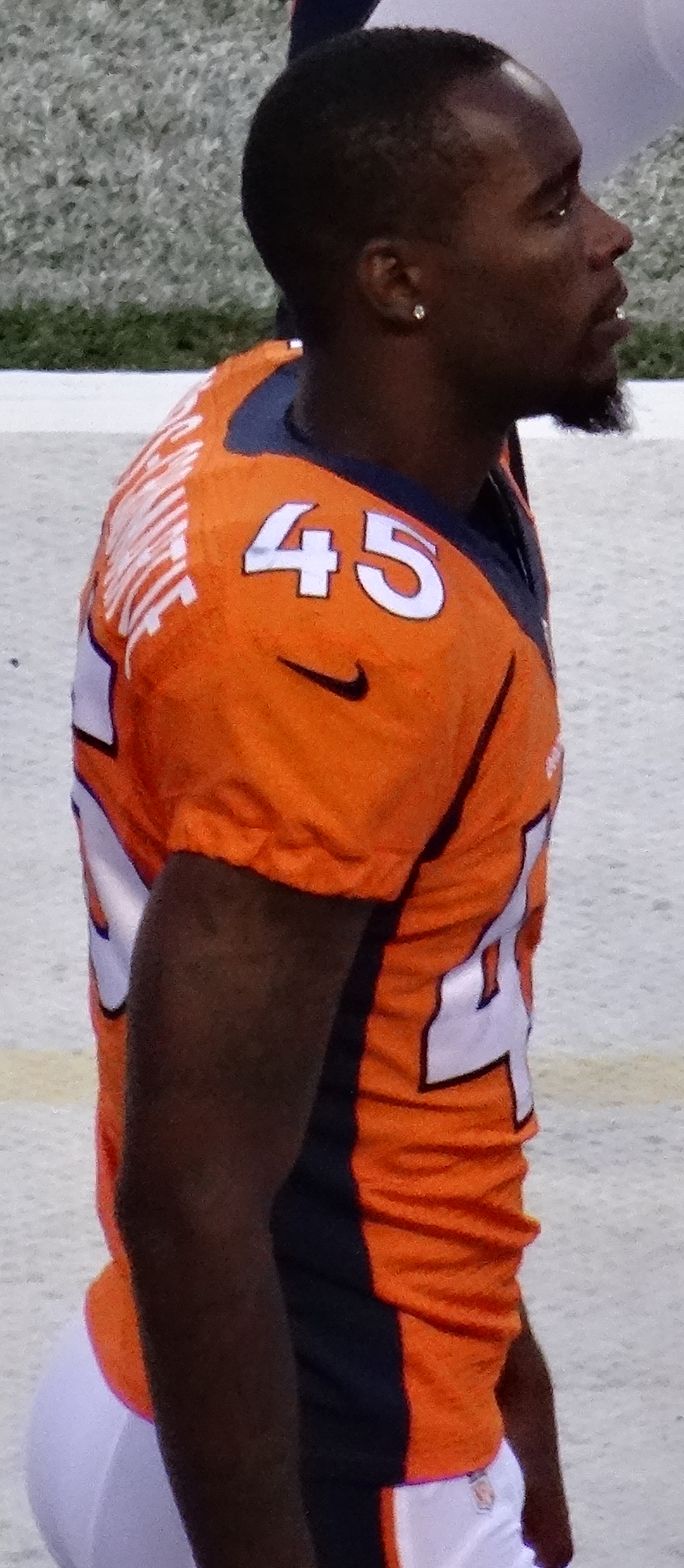 Dominique Rodgers-Cromartie, a player on the National Football League.